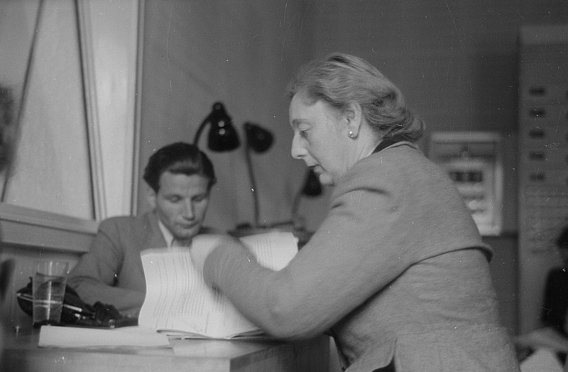 Original image description from the Deutsche FotothekPortrait Hedda Zinners